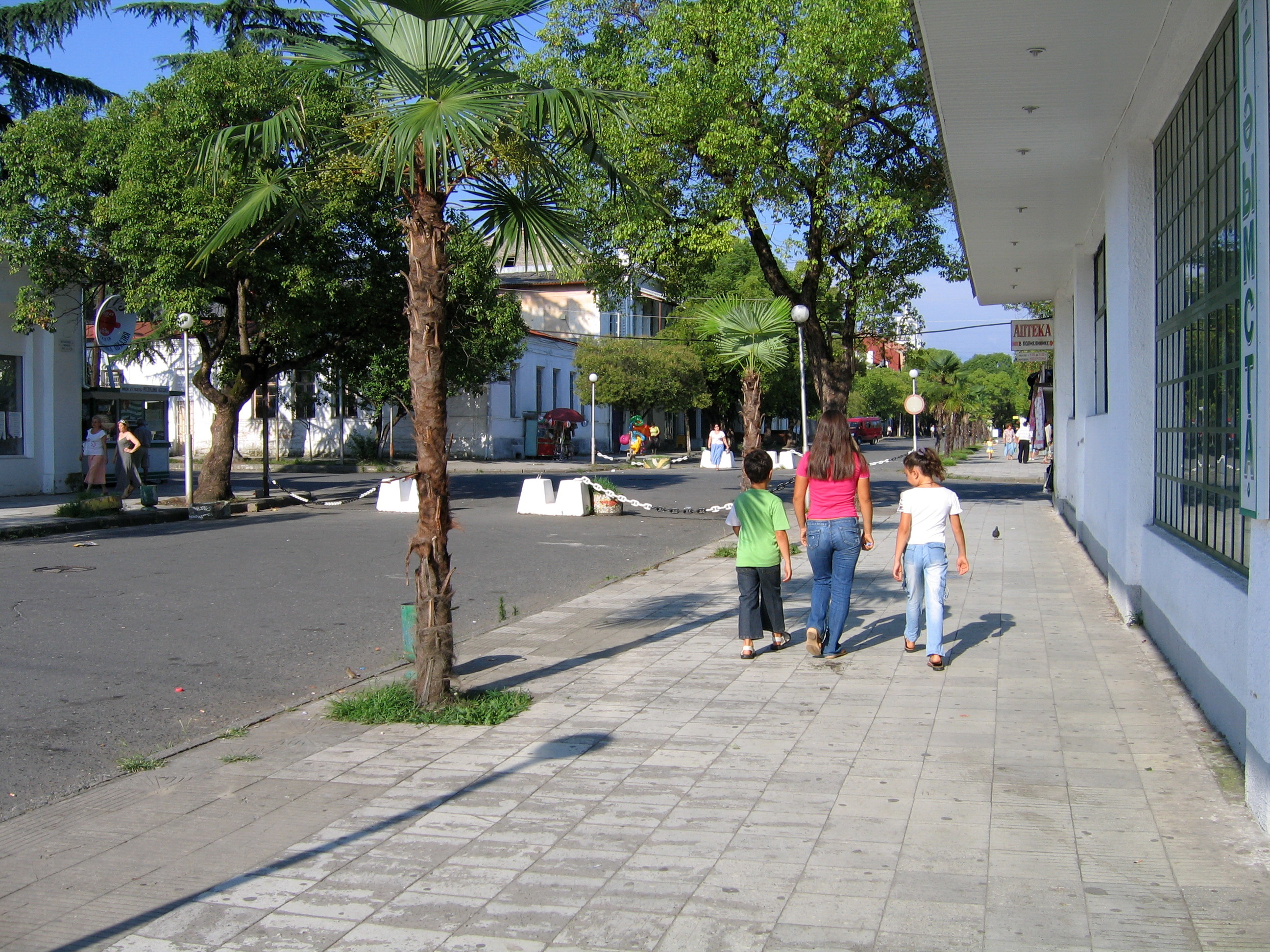 Prospect Mira. Sukhum. Abkhazia